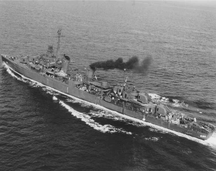 The U.S. Navy destroyer USS Halsey Powell (DD-686) underway off San Pedro, California (USA), on 6 July 1945.